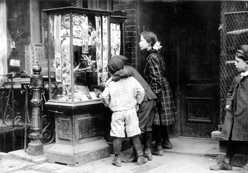 Some children looking at a selection of Christmas Cards during the 1910 holiday season.